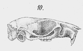 This picture is extracted from "Leche 1886 plate 16.png"; fig. 10. It shows the skull and the upper jaw of the Oligoryzomys flavescens.